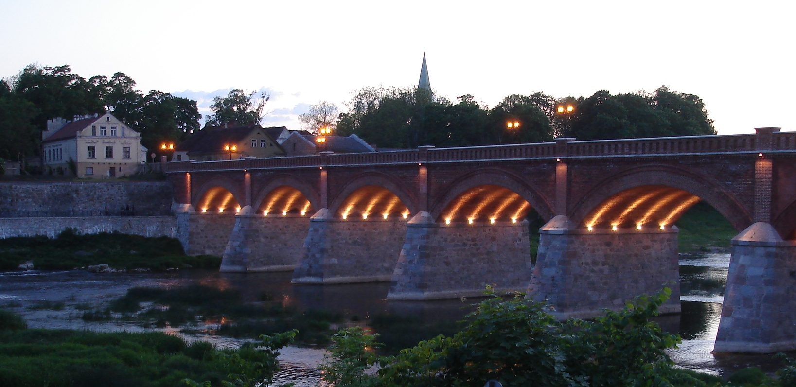 Bridge over Venta river in Kuldiga. Latvia.